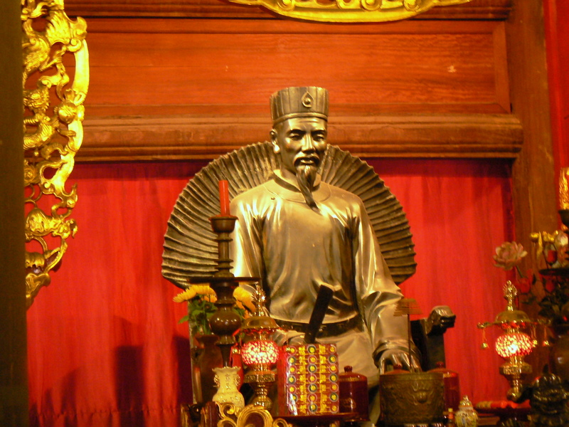 Chu Văn An statue at Temple of Literature, Hanoi.